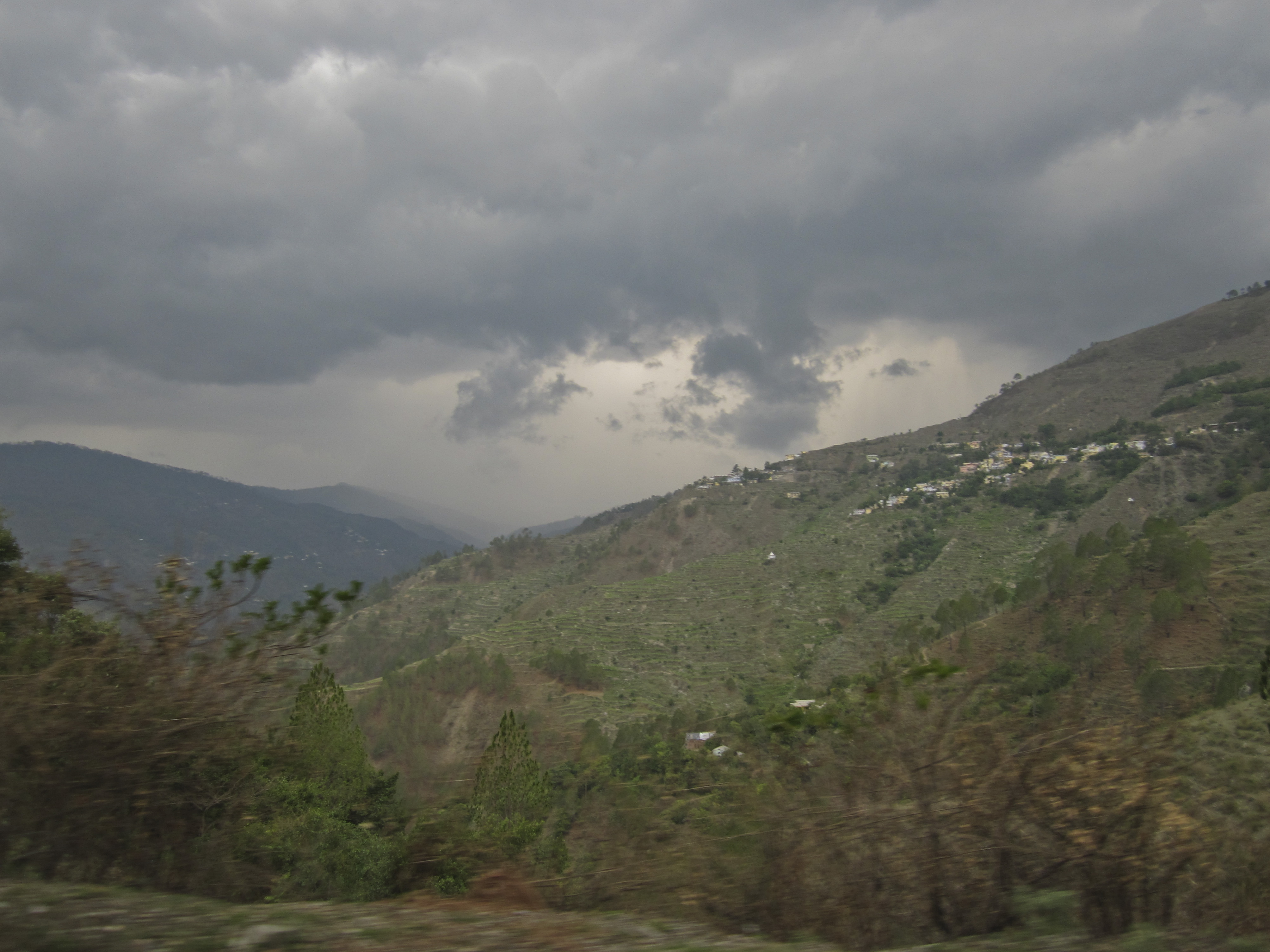 View from Panyali, Ranikhet